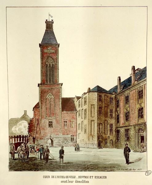 Lille : Cour de l'hôtel de ville : Beffroi et escalier avant leur démolitiondate : circa 1893 [1893]dimensions : 27 x 35 cm.technique : lithographie